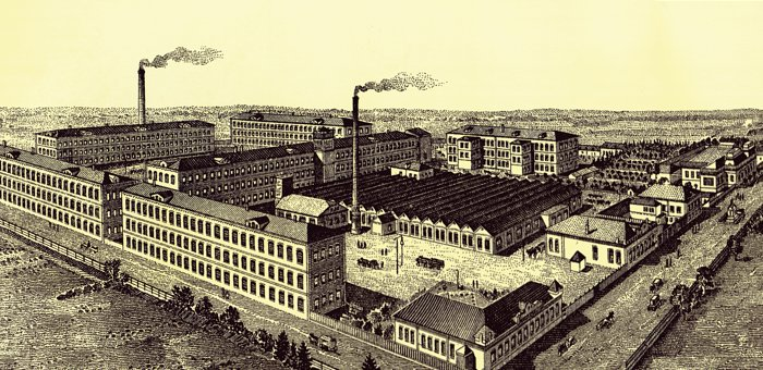 history of factory